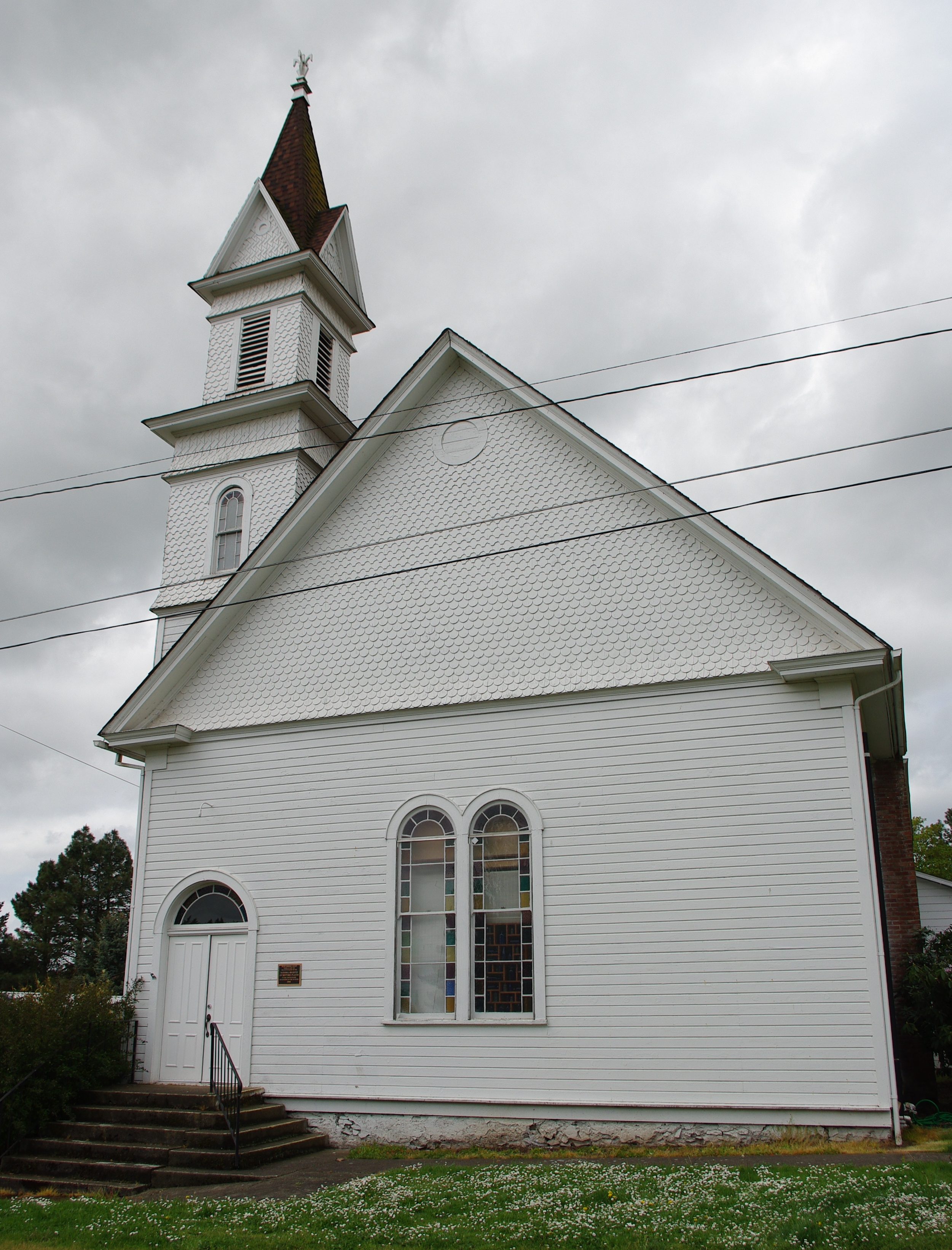 Evangelical Church of Lafayette, Oregon, USA. Front view. NRHP, AKA Poling Memorial Church.